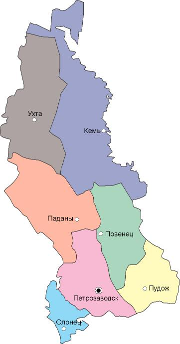 Map of Soviet Karelia in 1927.